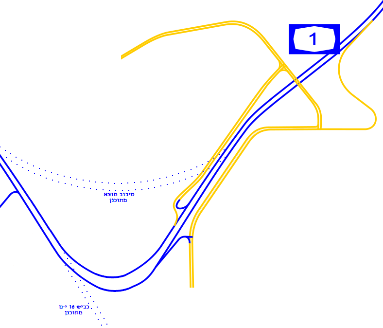 Junction of Israel Highway 1 and local streets in Motza